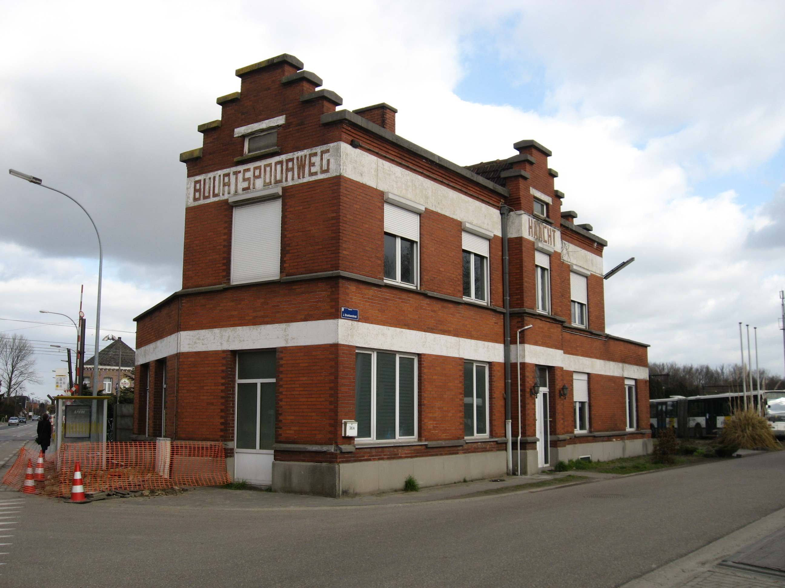 The old station building off the vicinal railway in Haacht. Is next to the railway station and was by the entrance to the tram depot, now bus garage.